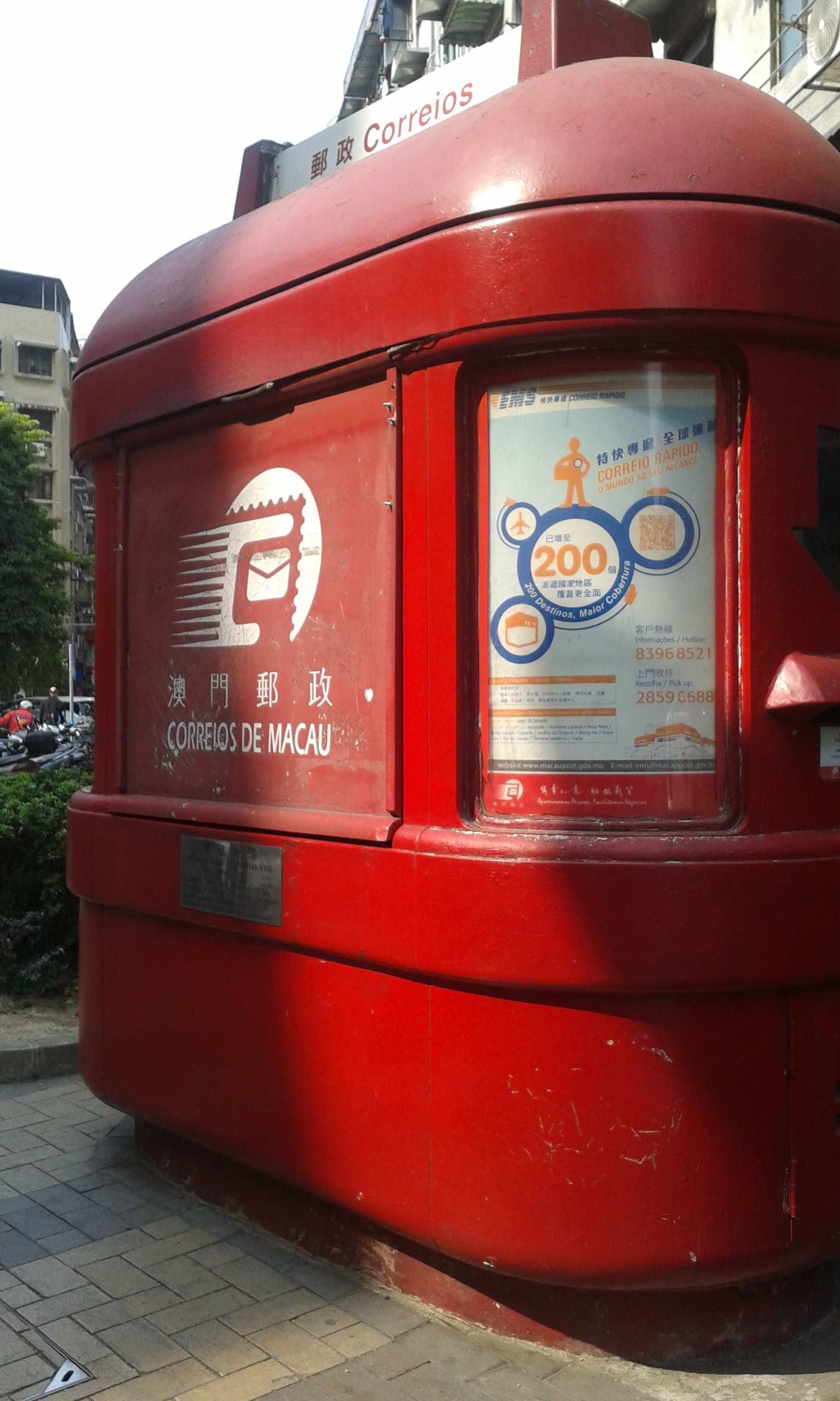 Posthouse in Macau